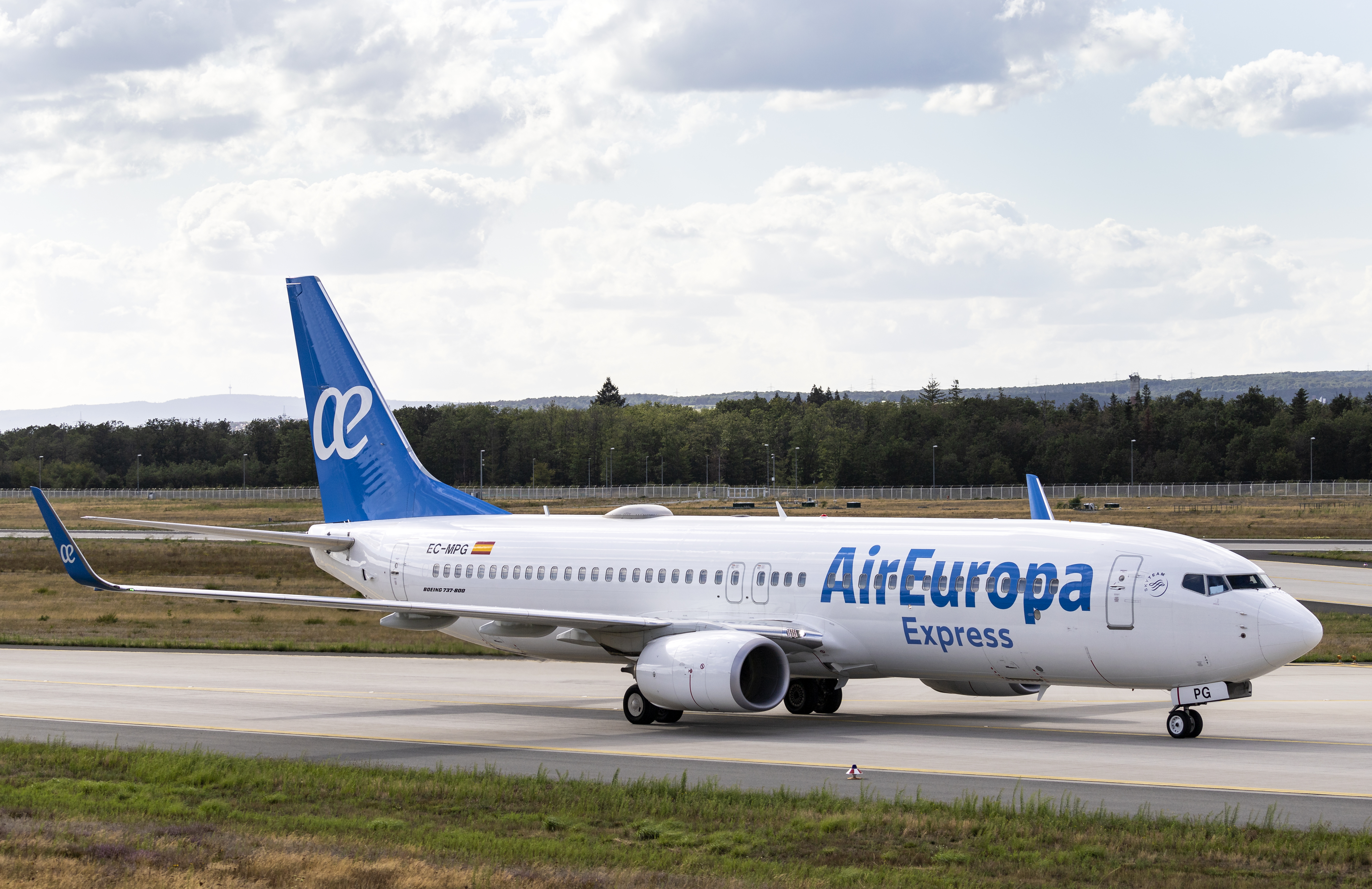 Frankfurt am Main Airport, Boeing 737-800 (EC-MPG) of AirEuropa Express taxiing to gate after landing on runway 25R.